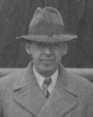 Wilhelm Blaschke, Mathematical Society Jena, visitors' conference at Abbeanum in Jena, 26th until 28th October 1930.